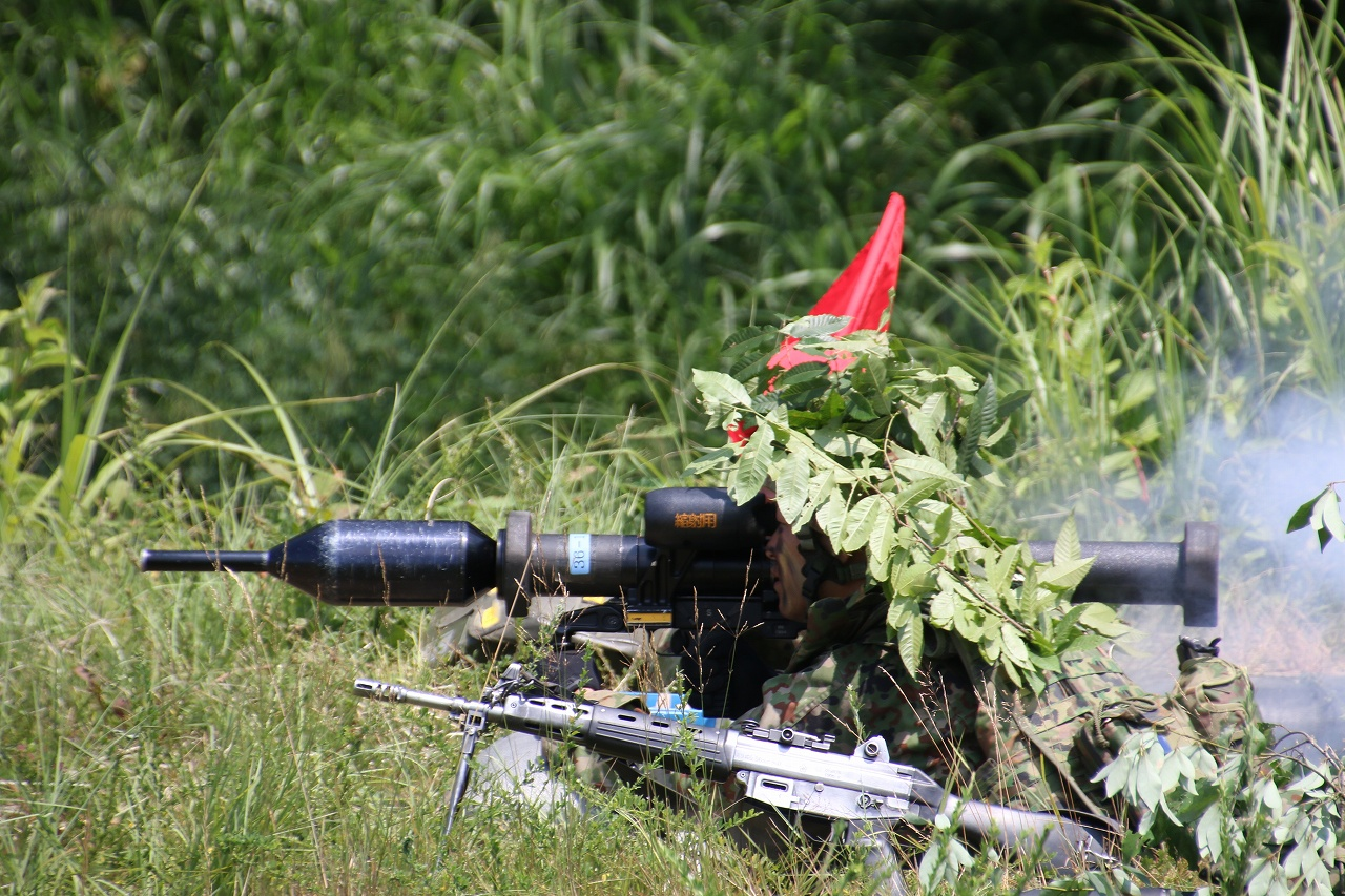 A JGSDF soldier in the 36IR with the Panzerfaust 3.